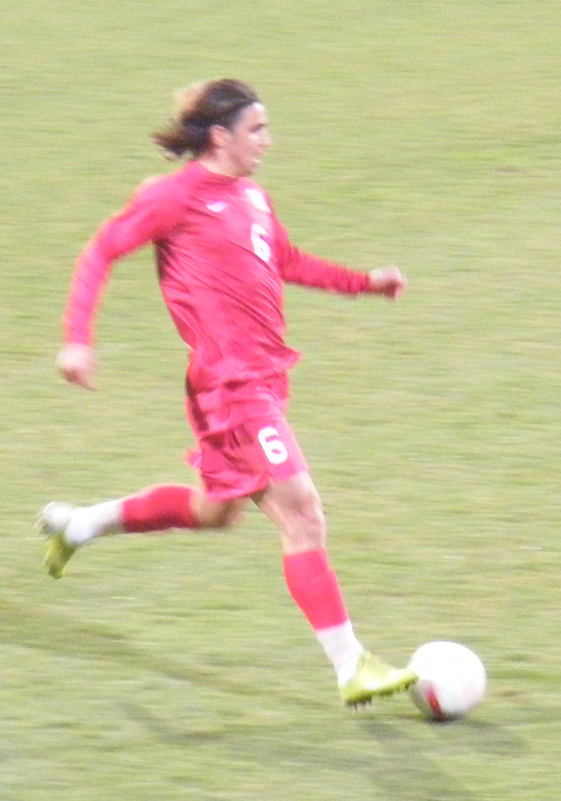 M.Topuz in the match agains Sweden